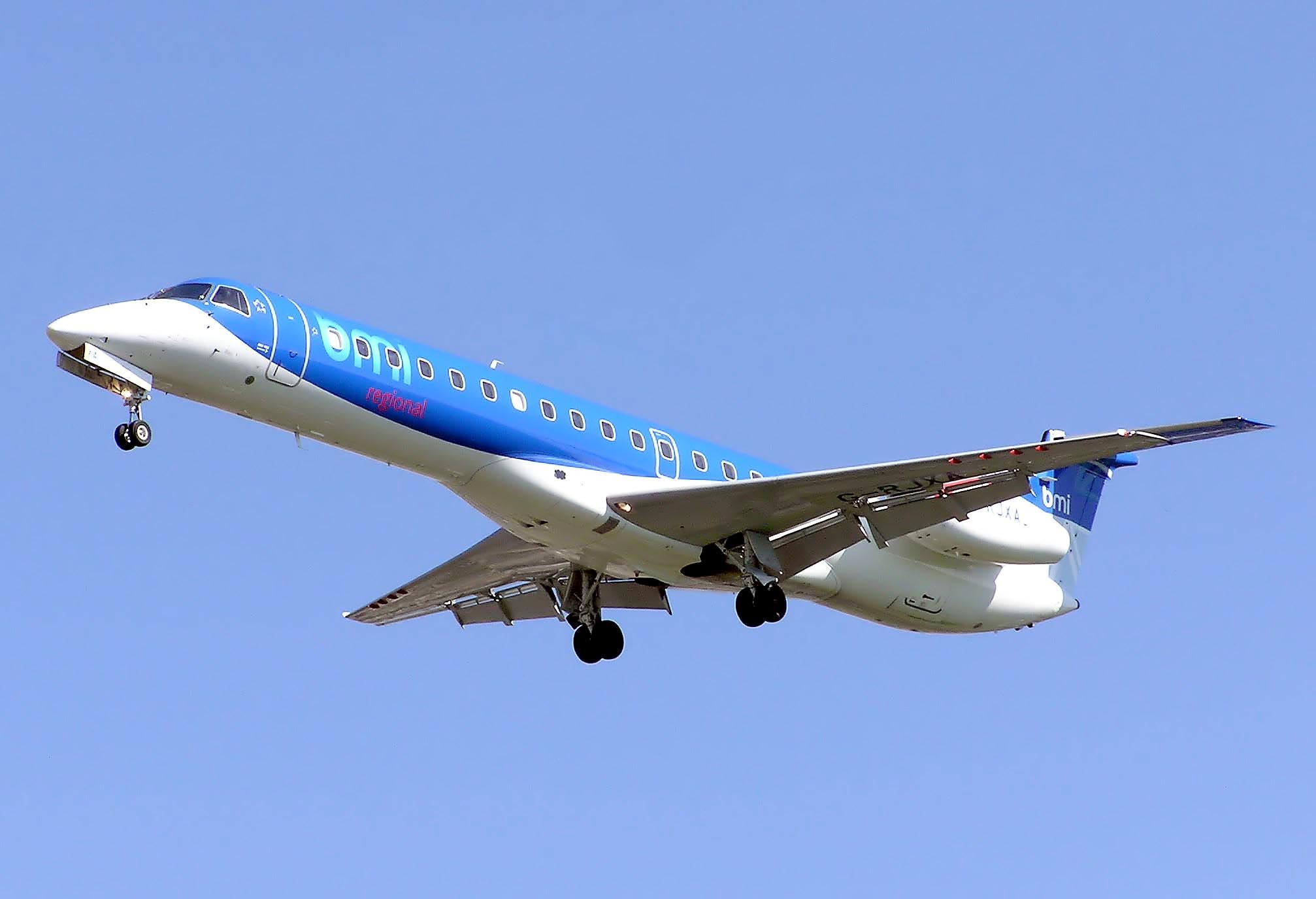 Embraer EMB-145EP (G-RJXA) landing at London Heathrow Airport, England.